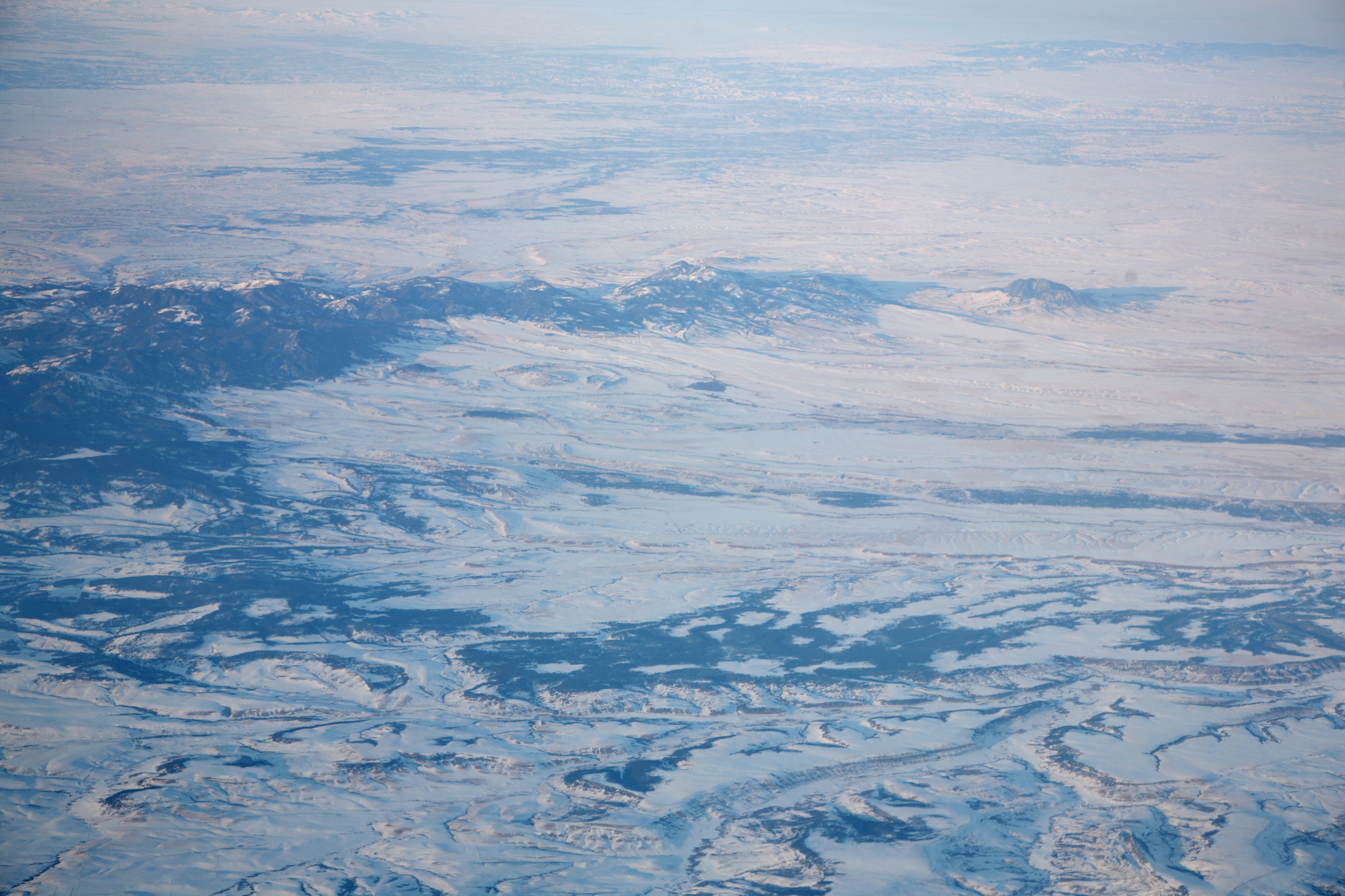 Aerial shot of Judith Mountains in Fergus County, Montana